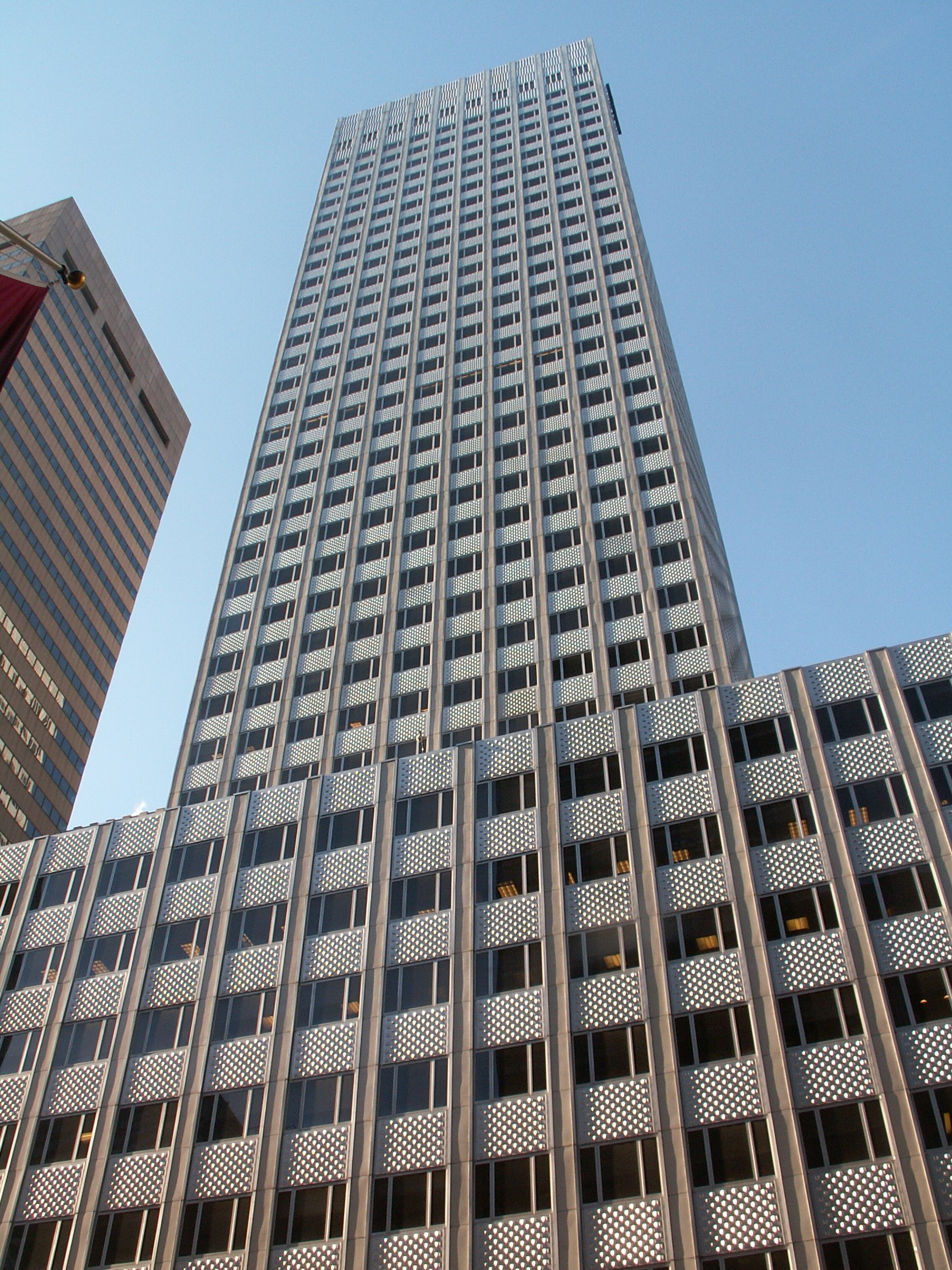 666 Fifth Avenue in January 2007. Photo by poster.